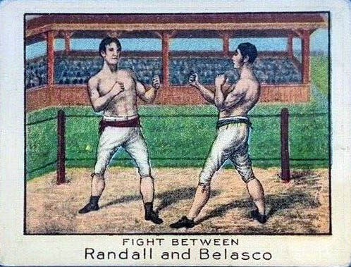 A tobacco card produced by Mecca Cigarettes for the T-220 series, featuring a match between boxers Jack Randall and Aby Belasco.